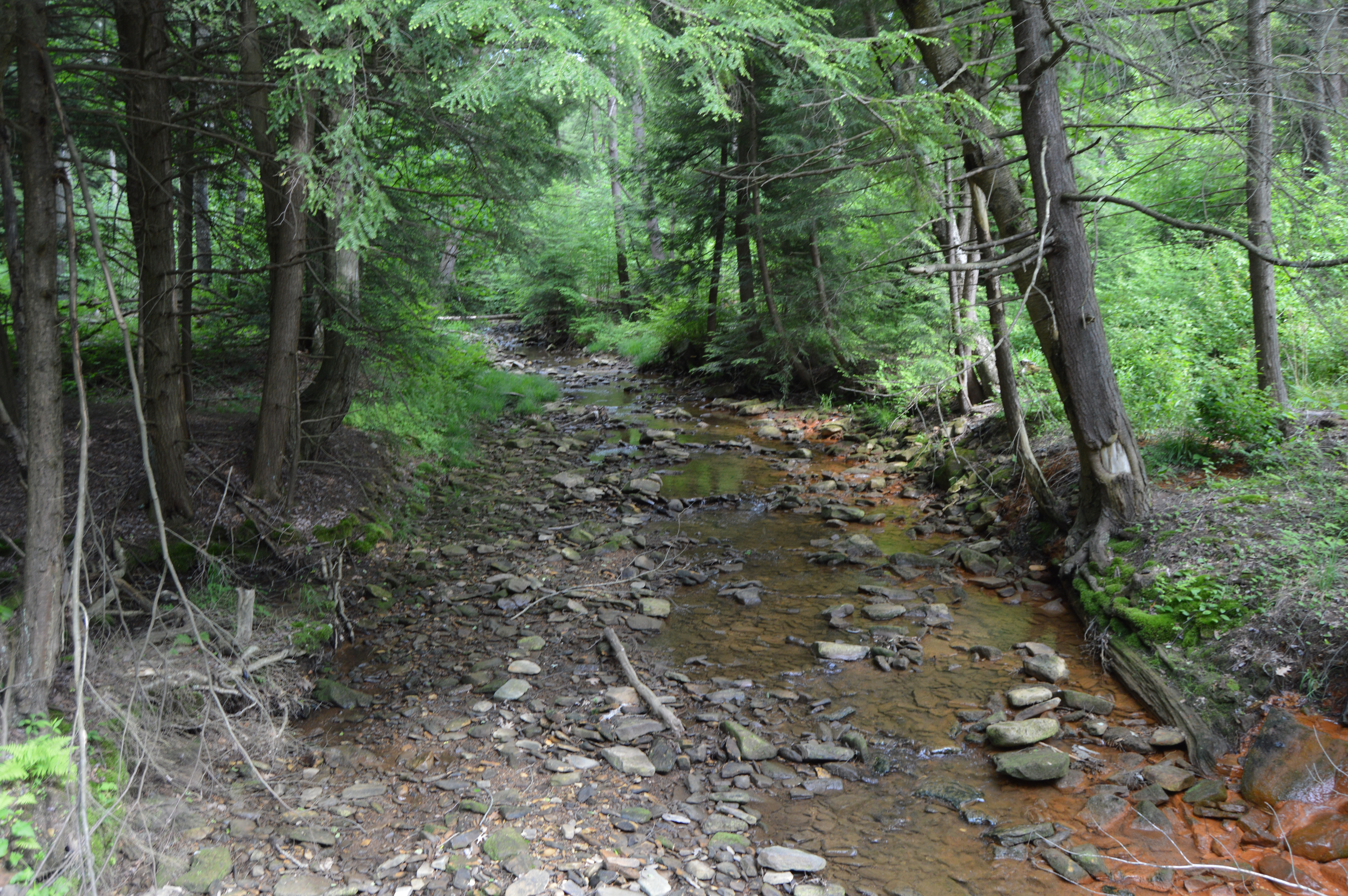 Looking upstream along a tiny stream, Swamp Run, from Five Mile Run Road just south of Brookville, in Knox Township, Jefferson County, Pennsylvania, United States.